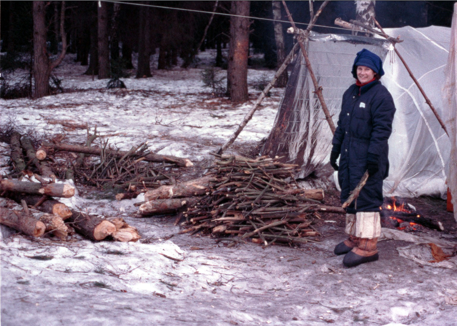 Astronaut Susan Helms, a member of the second crew that will live aboard the International Space Station, gathers firewood during Soyuz winter survival training in March 1998 near Star City, Russia.